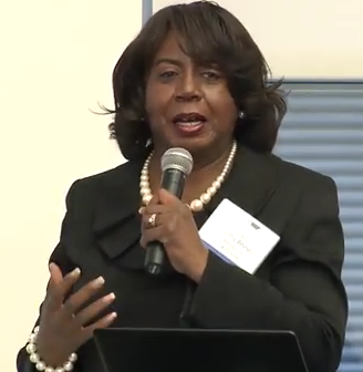 The honorable Dorothy Brown, Clerk of the Circuit Court Cook County, speaking at the GTF Launch and Forum